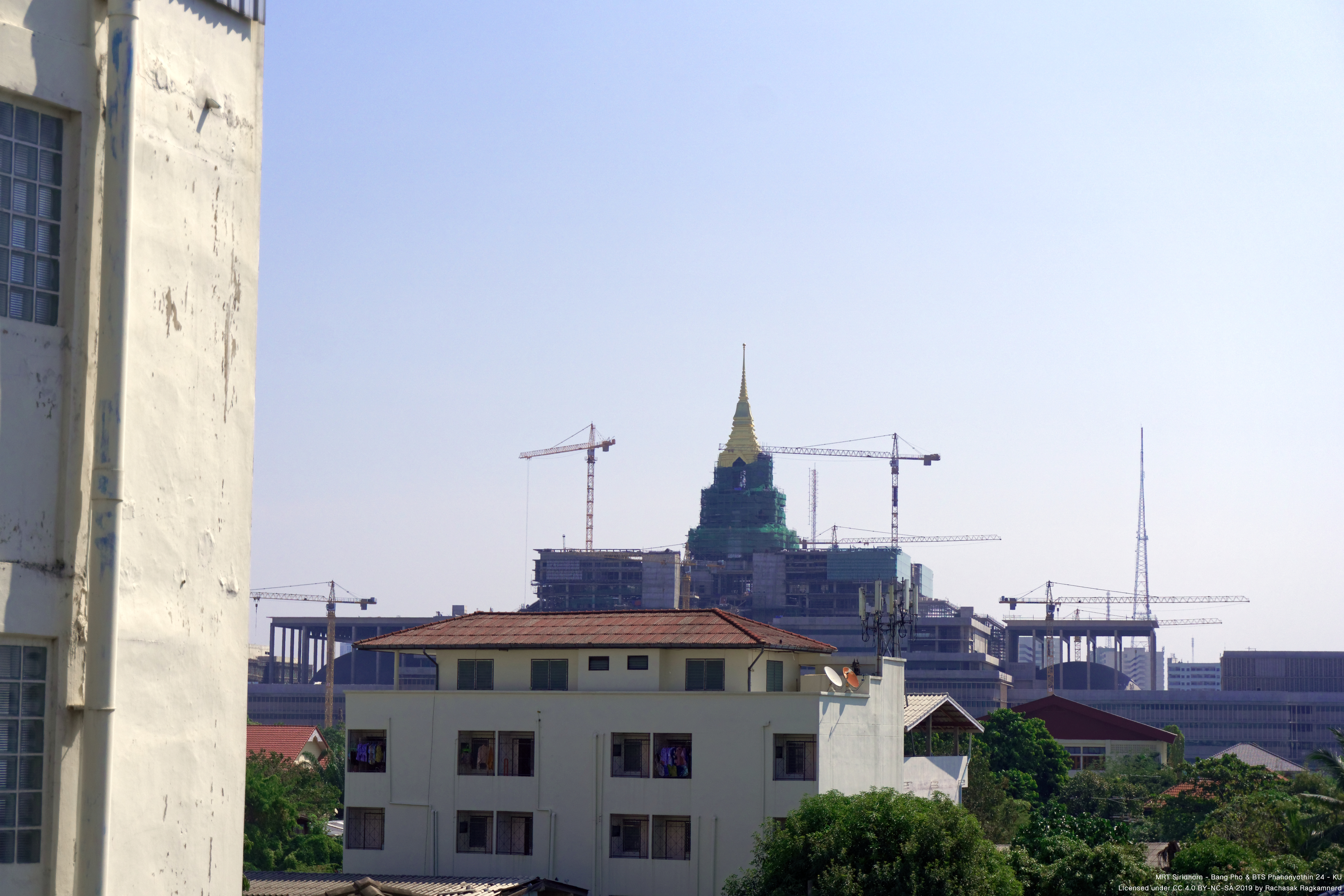 MRT Bang O - looking toward Parliament building